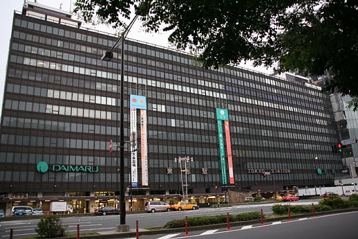 Tokyo Station Yaesu Entrance(Tokyo Station), Chuo Ward, Tokyo Metropolitan Area, Japan.